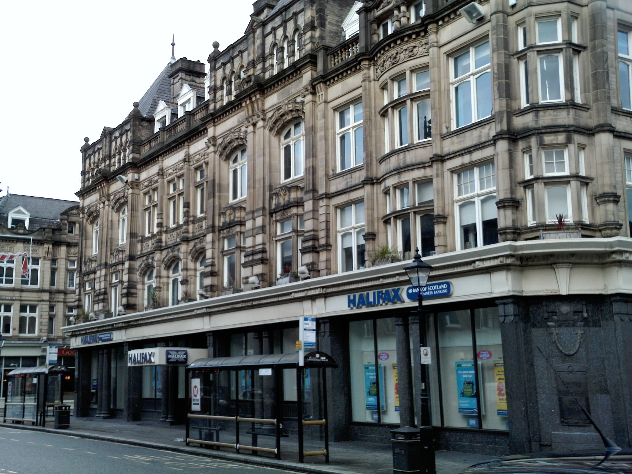 The Halifax bank on Commercial Street in Halifax, West Yorkshire. Taken on a Sunday afternoon in November 2009.